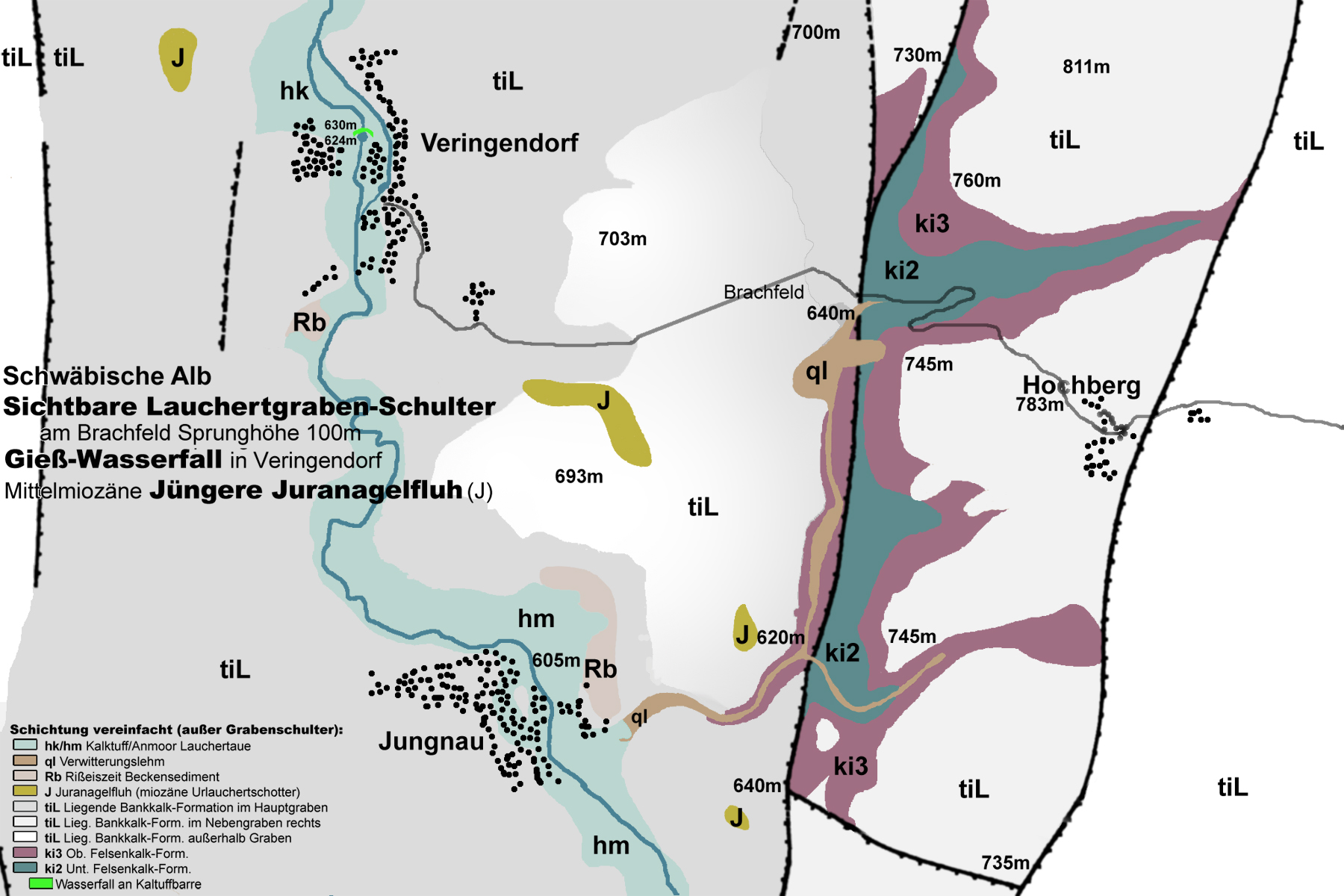 Simplified geological map of the most prominent part of Lauchert-Graben, E of Veringendorf, Swabian Alb. At the intersection of the road "Veringendorf" up to "Hochberg" the main eastern dislocation reaches its maximum of 100m. Lauchert waterfall "Gieß-Wasserfall" in "Veringendorf." In and beyond the graben there are rests of cemented, middle miocene conglomerates, in German Geology called "Jüngere Nagelfluh" (J).